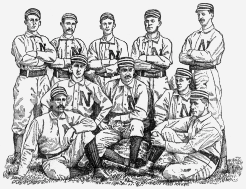 An illustration of the 1894 Nashville Tigers from the March 25, 1894, issue of The Nashville American (Back row, from left: Jim Collopy, Milt Whitehead, Jack Meara, John O'Brien, Charles Dooley; Middle row: Edward Webster, George Stallings, George Cleve; Front row: Jacob Lookabaugh, George Borchers)